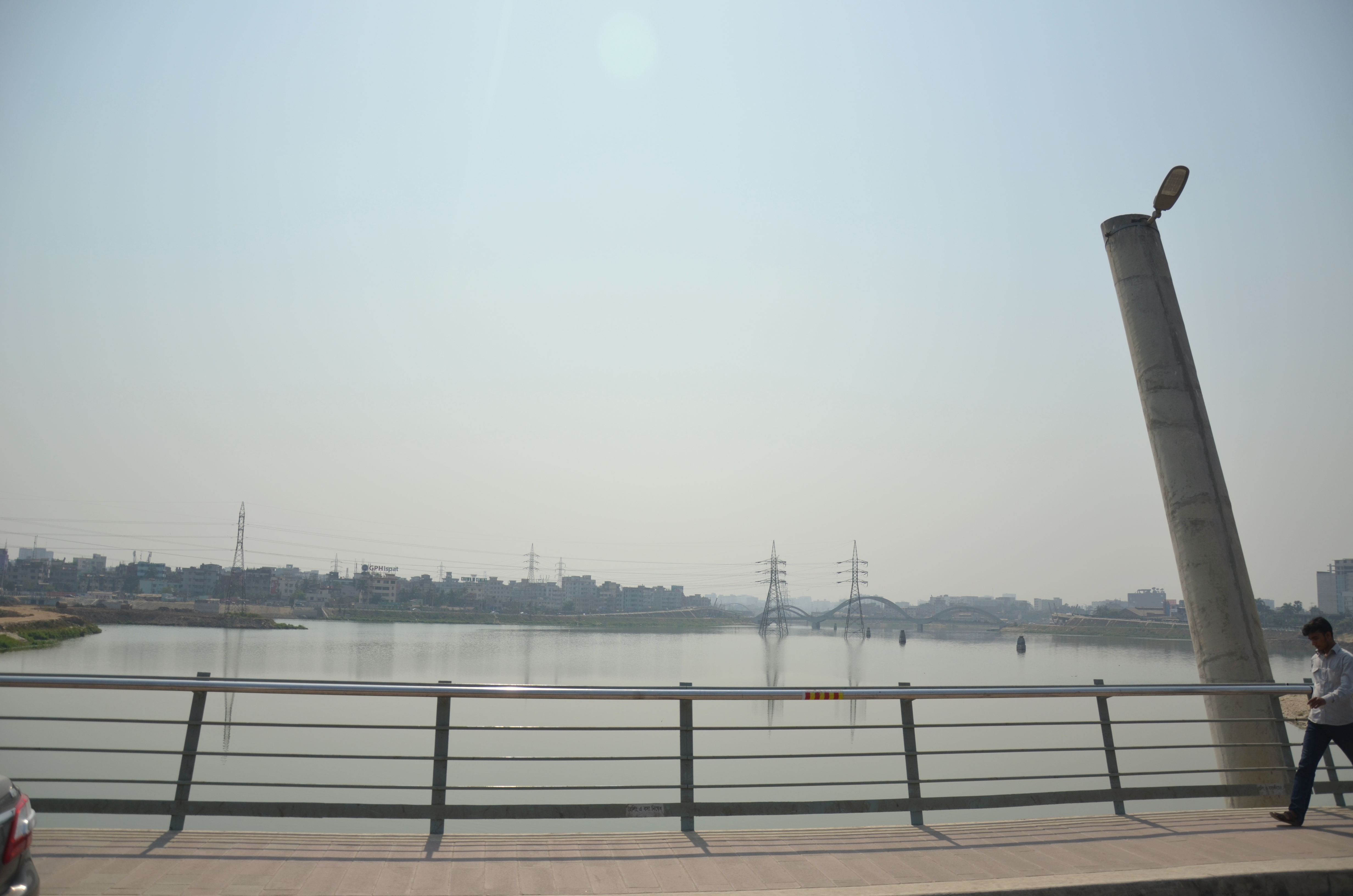 Hatirjheel, Dhaka, Bangladesh.